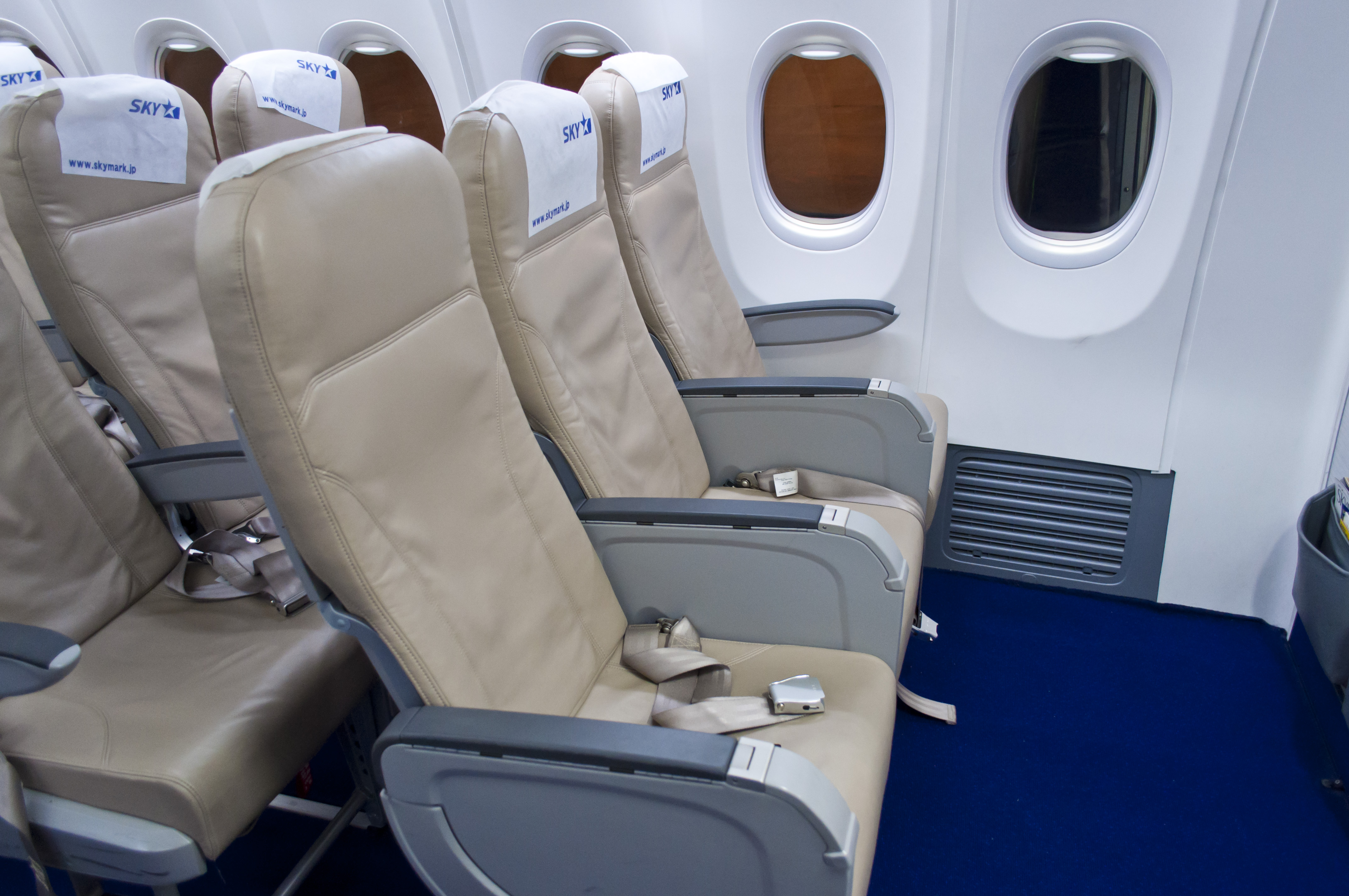 Seats in Skymark Airlines' Boeing 737 NextGen(JA73NQ).